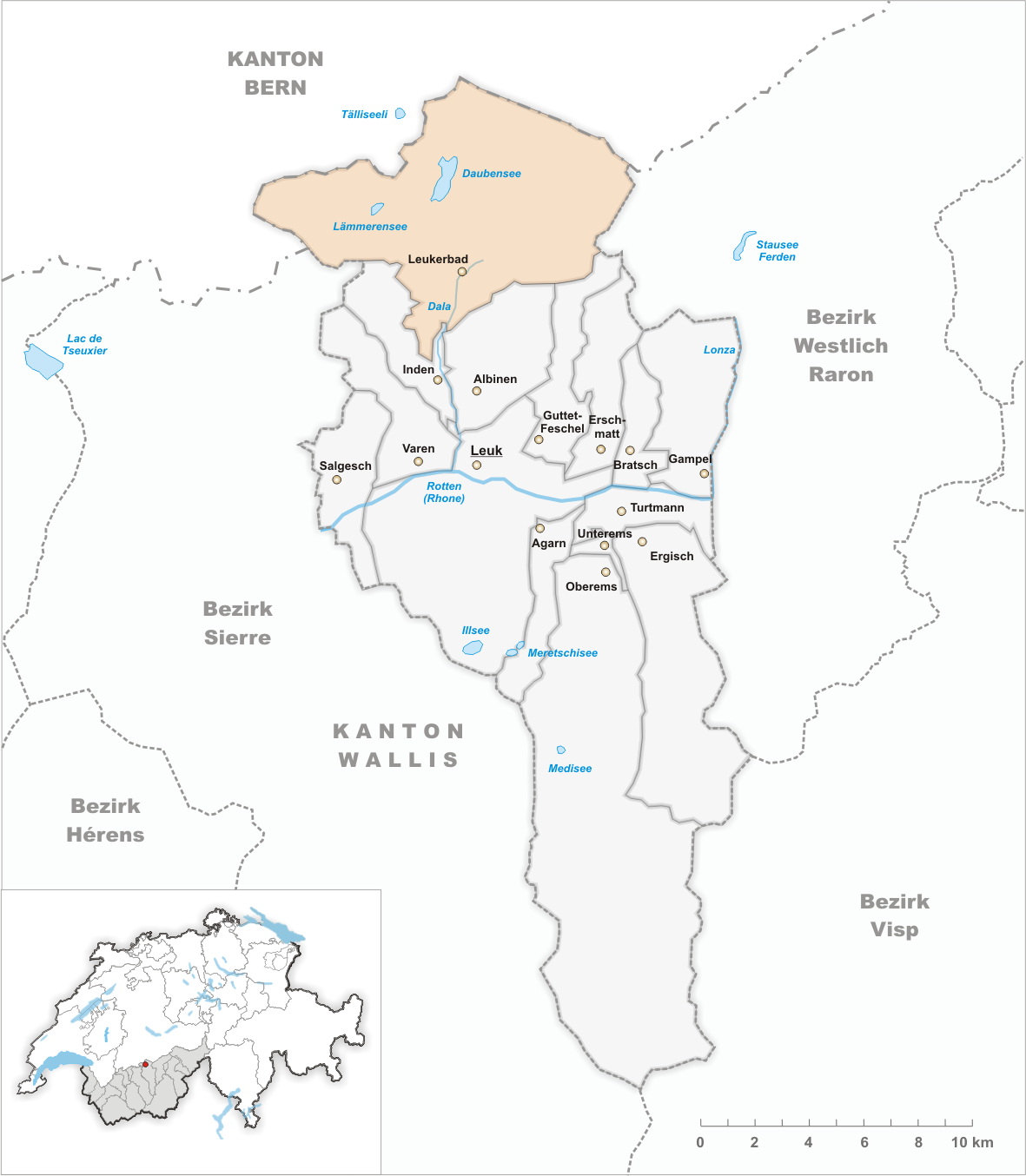 Municipality Leukerbad